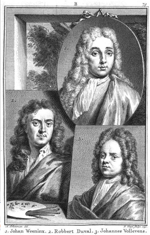 Portraits of Johan Weeninx, Robbert Duval and Johannes Vollevens